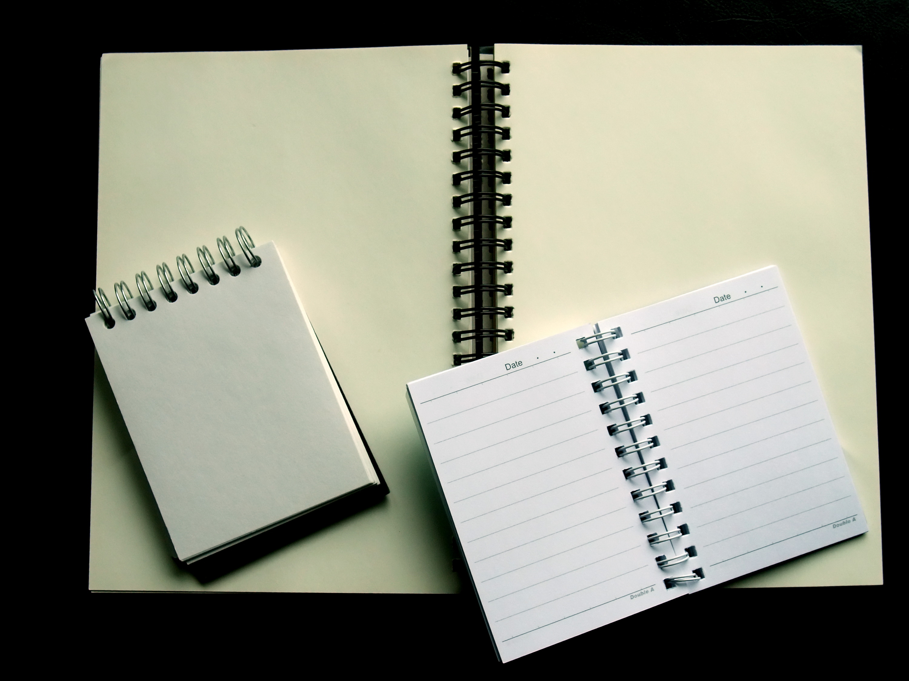 Two A7 (2.9" X 4.1") form factor spiral-bound notebooks on top of an A5 (5.8" X 8.3") form factor spiral-bound notebook.